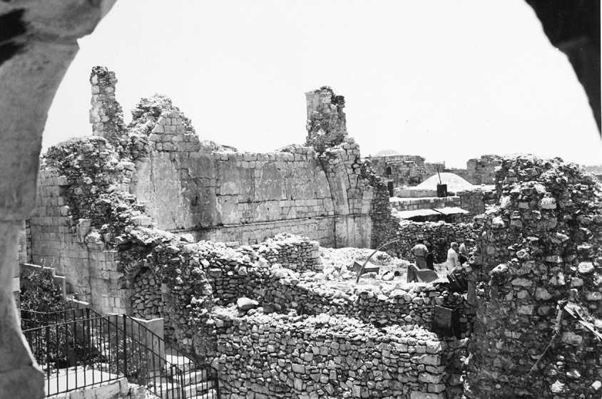 Ruins of the Hurva, Jerusalem, 1967